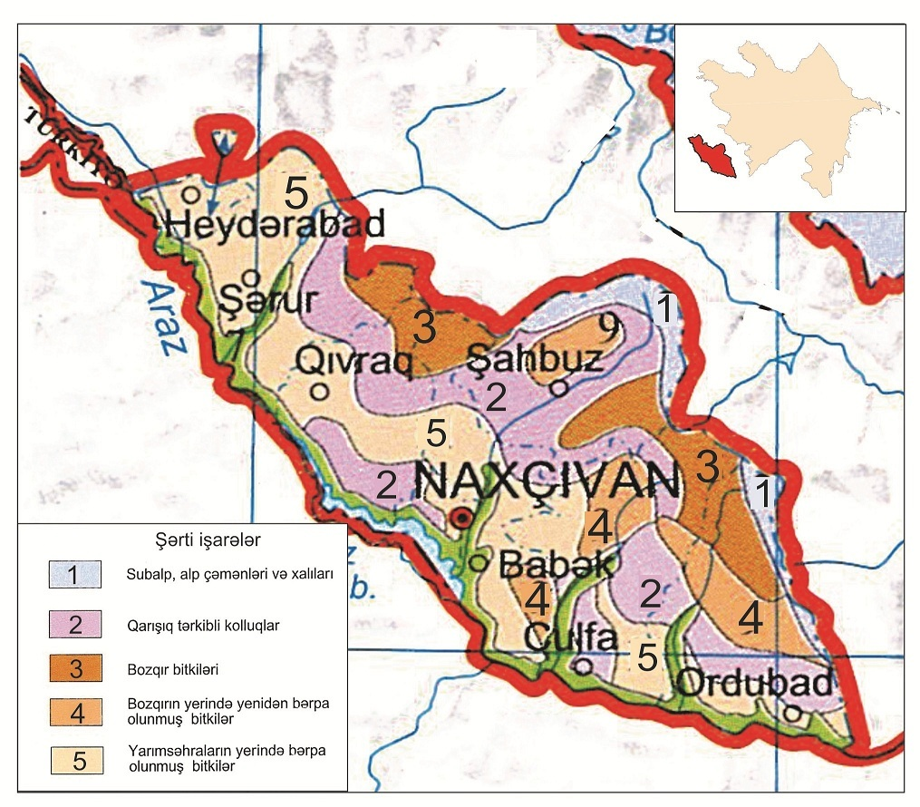 Orta Araz təbii vilayətinin bitki örtüyü.